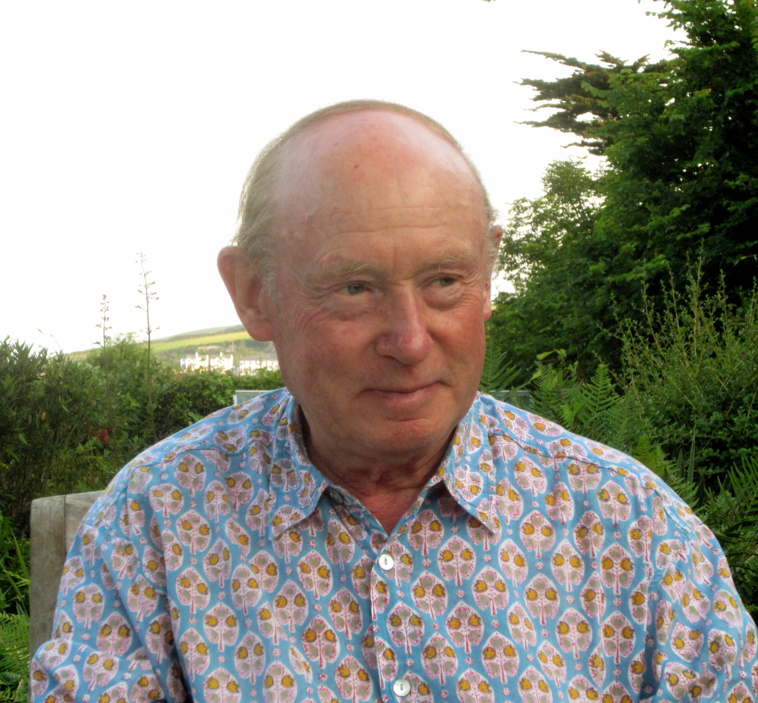 Christopher Miles on location in 2013 for "The Lost Girl"